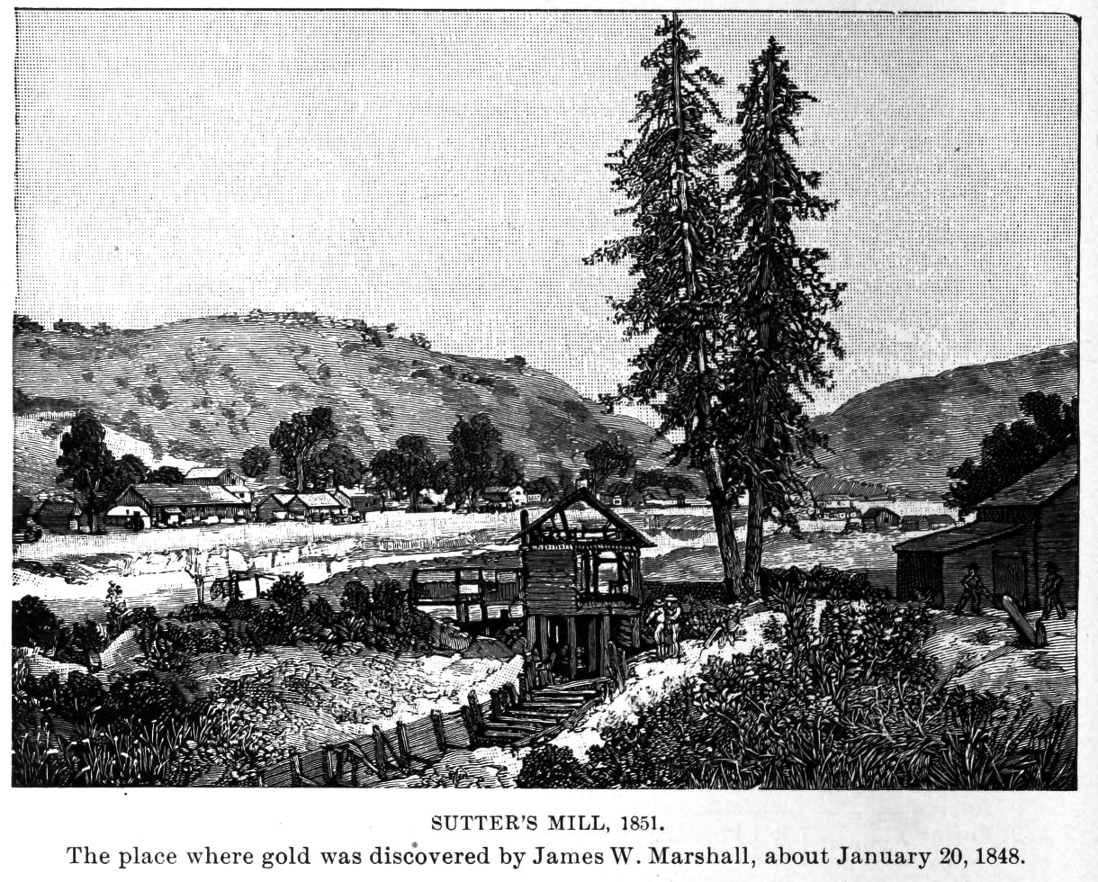 Sutter's Mill, 1851